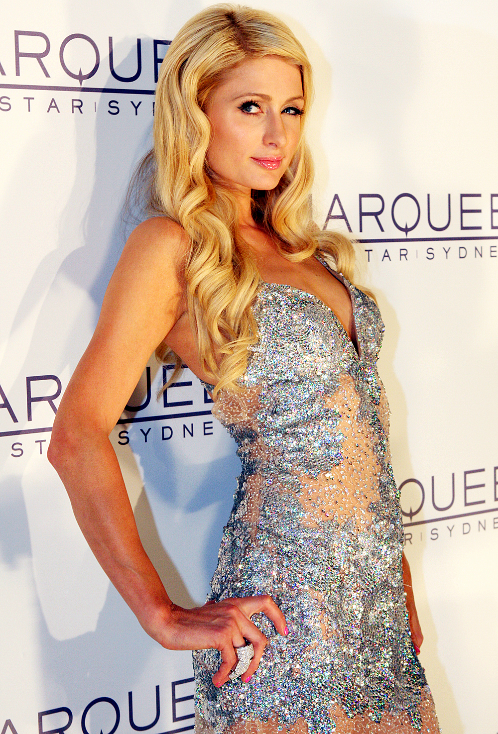 Paris Hilton: Marquee The Star Sydney 2012.